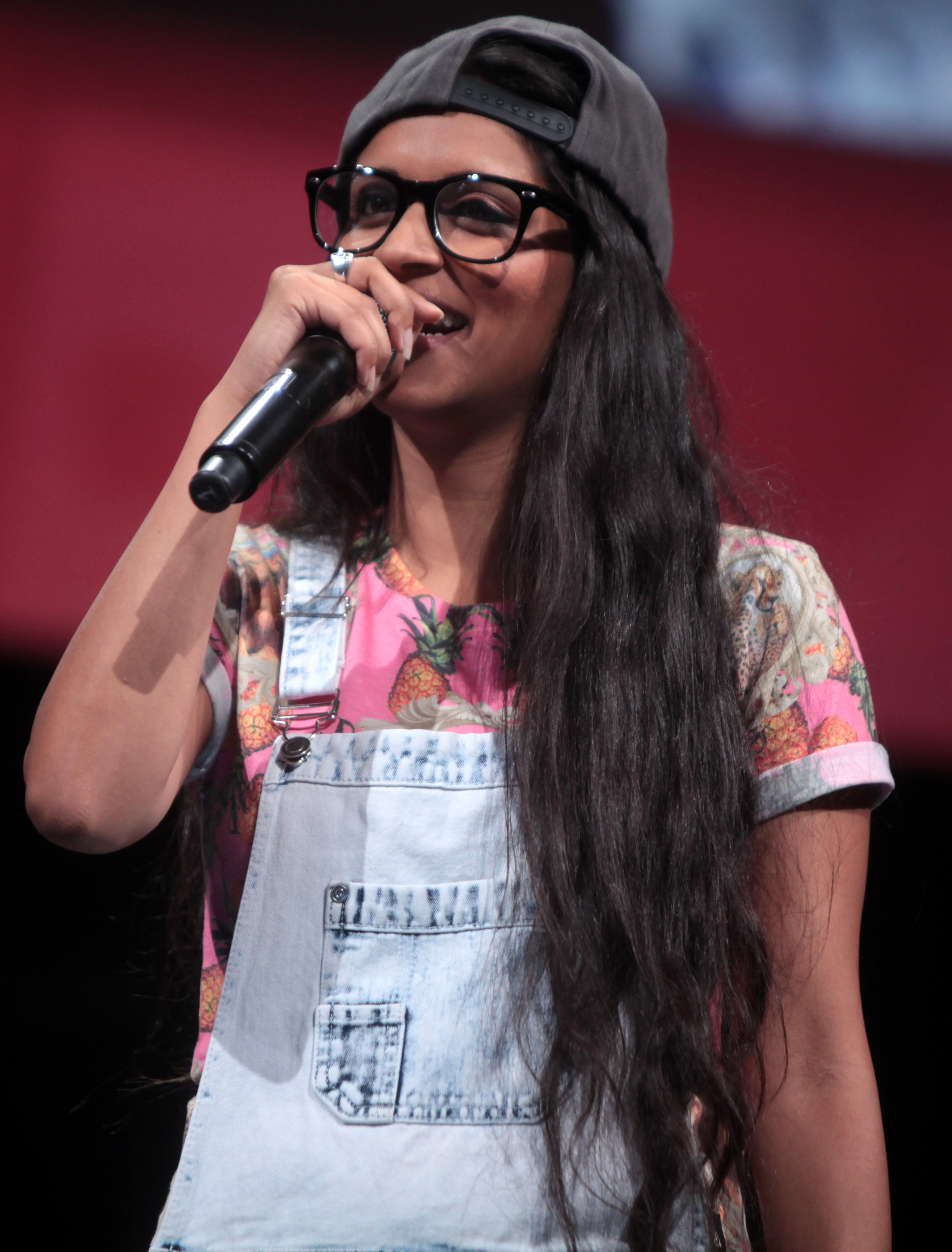 Lilly Singh speaking at the 2014 VidCon on June 28, 2014.